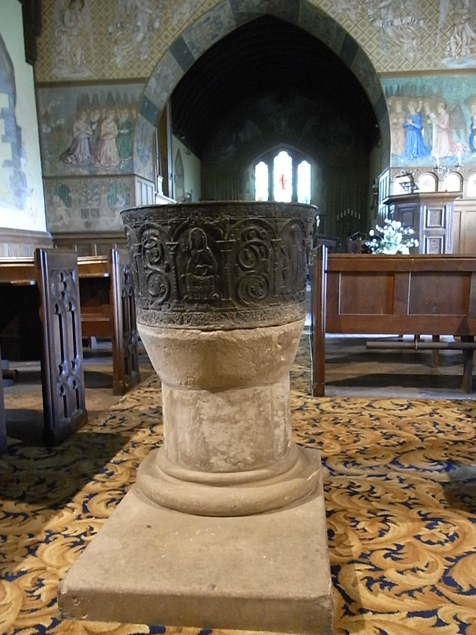 12th-century leaden baptismal font in St Anne's parish church, Siston, Gloucestershire. One of a group of leaden fonts in south Gloucestershire.